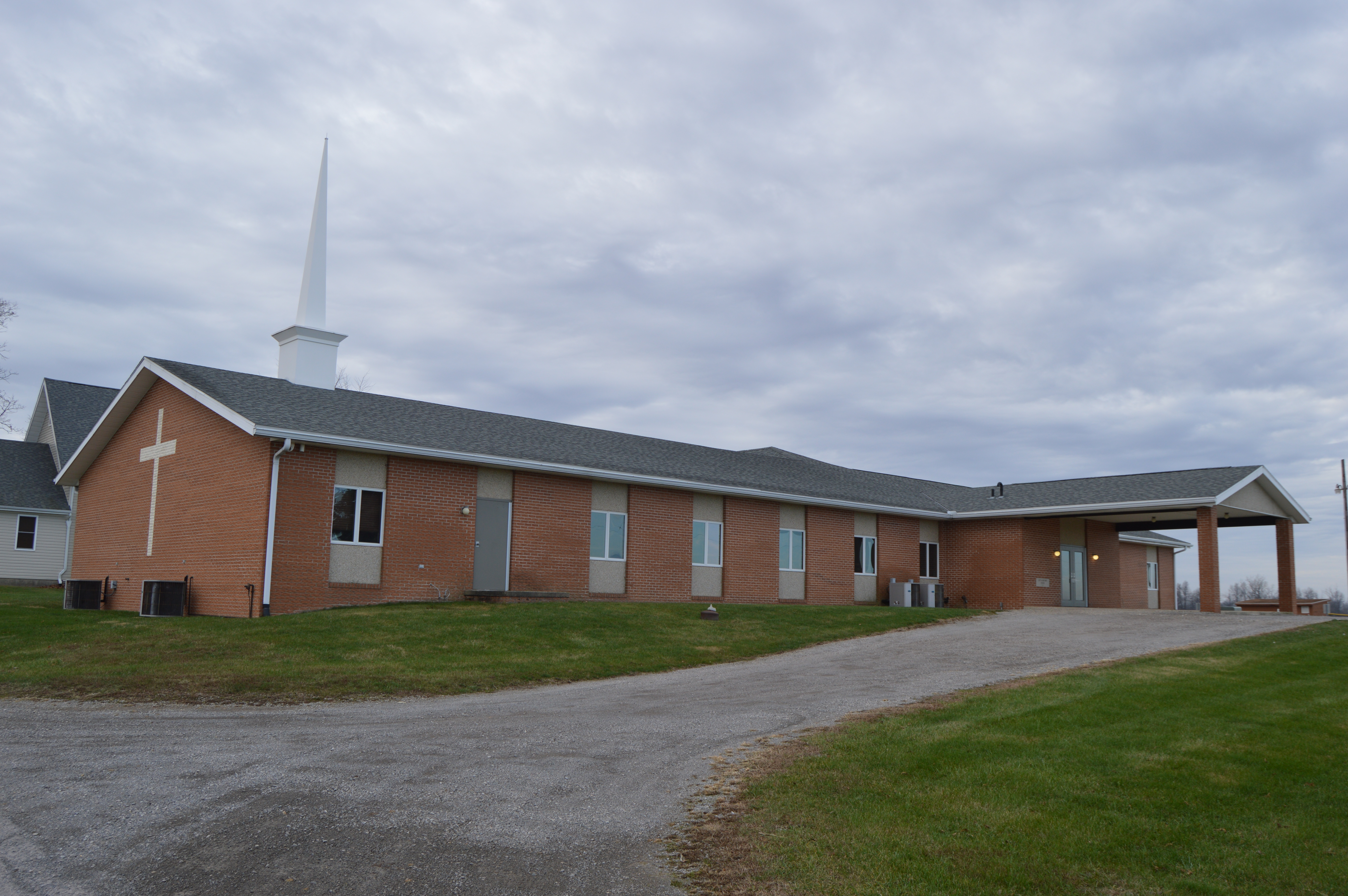 Northern side and front of Gretna Brethren Church, located at 1564 Township Road 46 west of Bellefontaine in Harrison Township, Logan County, Ohio, United States. It was built in 1992.